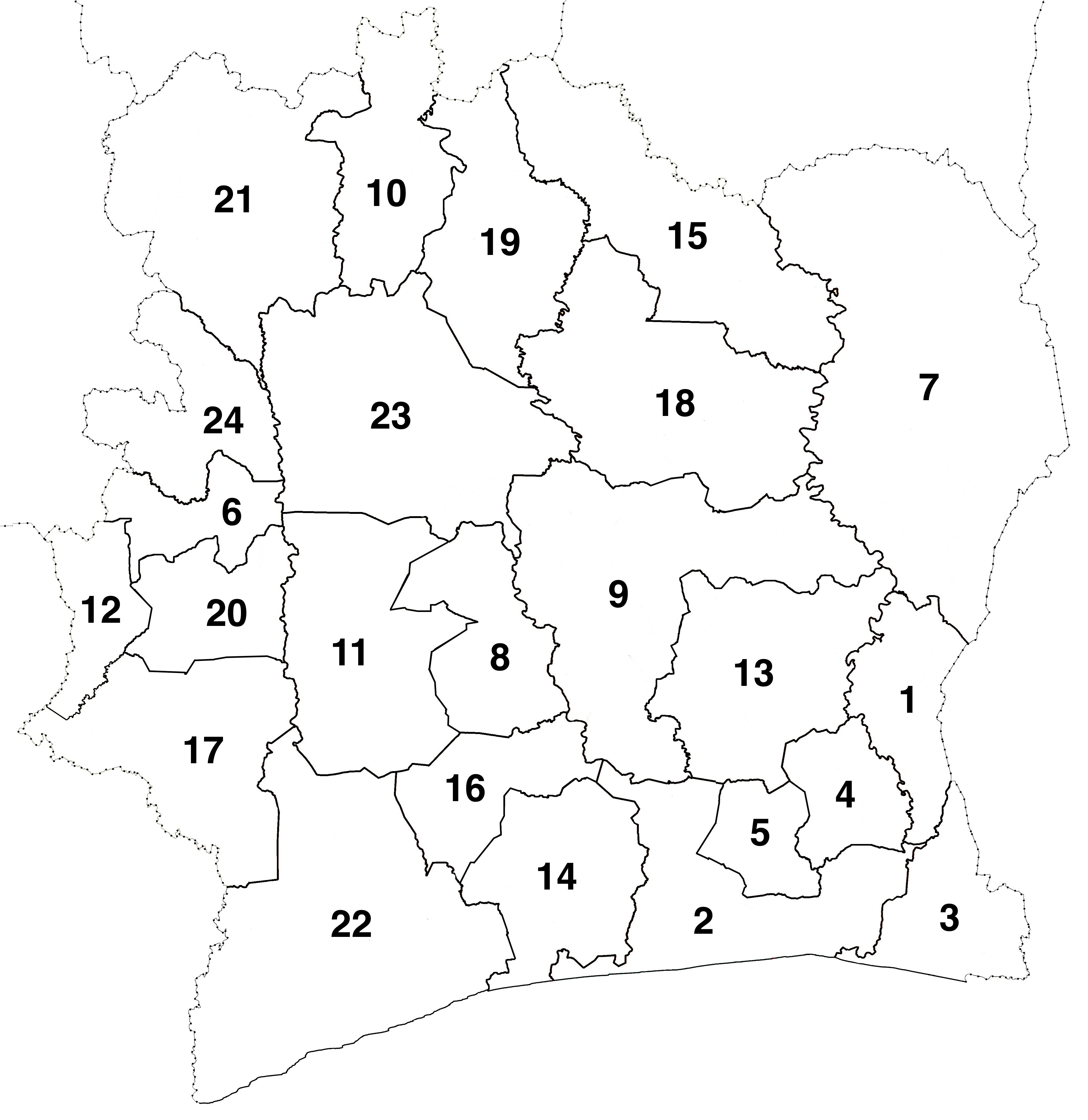 Locator map for the the 24 departments of Côte d'Ivoire that were established in 1969. These boundaries were consistent until 1974, when departments began to be divided. All of these departments still exist, except Abidjan. All the of remaining 23 departments except Agboville have since been divided one or more times and today have different boundaries. Key: 1. Abengourou 2. Abidjan 3. Aboisso 4. Adzopé 5. Agboville 6. Biankouma 7. Bondoukou 8. Bouaflé 9. Bouaké 10. Boundiali 11. Daloa 12. Danané 13. Dimbokro 14. Divo 15. Ferkessédougou 16. Gagnoa 17. Guiglo 18. Katiola 19. Korhogo 20. Man 21. Odienné 22. Sassandra 23. Séguéla 24. Touba